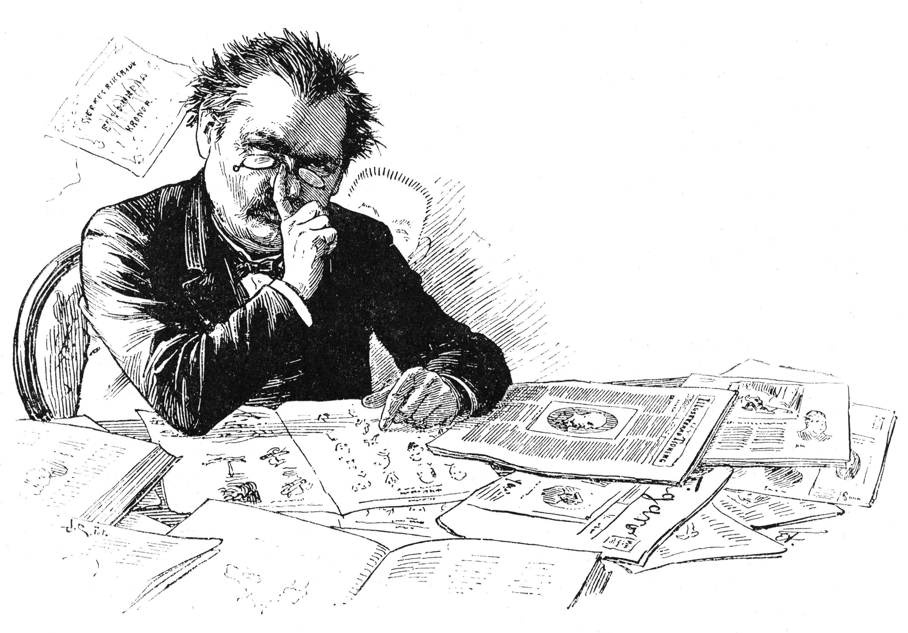 Axel Jäderin of Svenska Dagbladet, studies the concurrent newspapers.